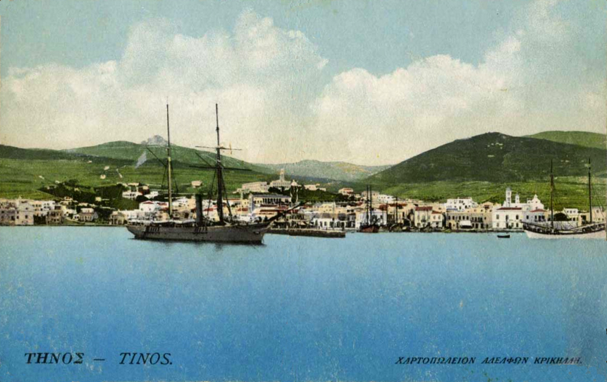 Postcard of Tinos, Greece, published by Purger & Co.